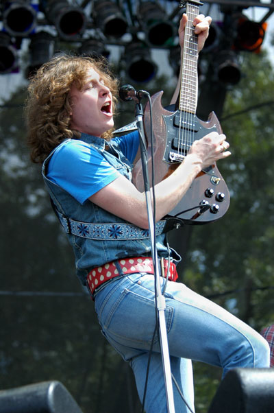 Ben Kweller at the Austin City Limits Music Festival, 2006 moments before his show-ending nose bleed. Photo by Steve Hopson. See more photos at: . Use of this photo requires attribution. Please credit, Steve Hopson Photography, .